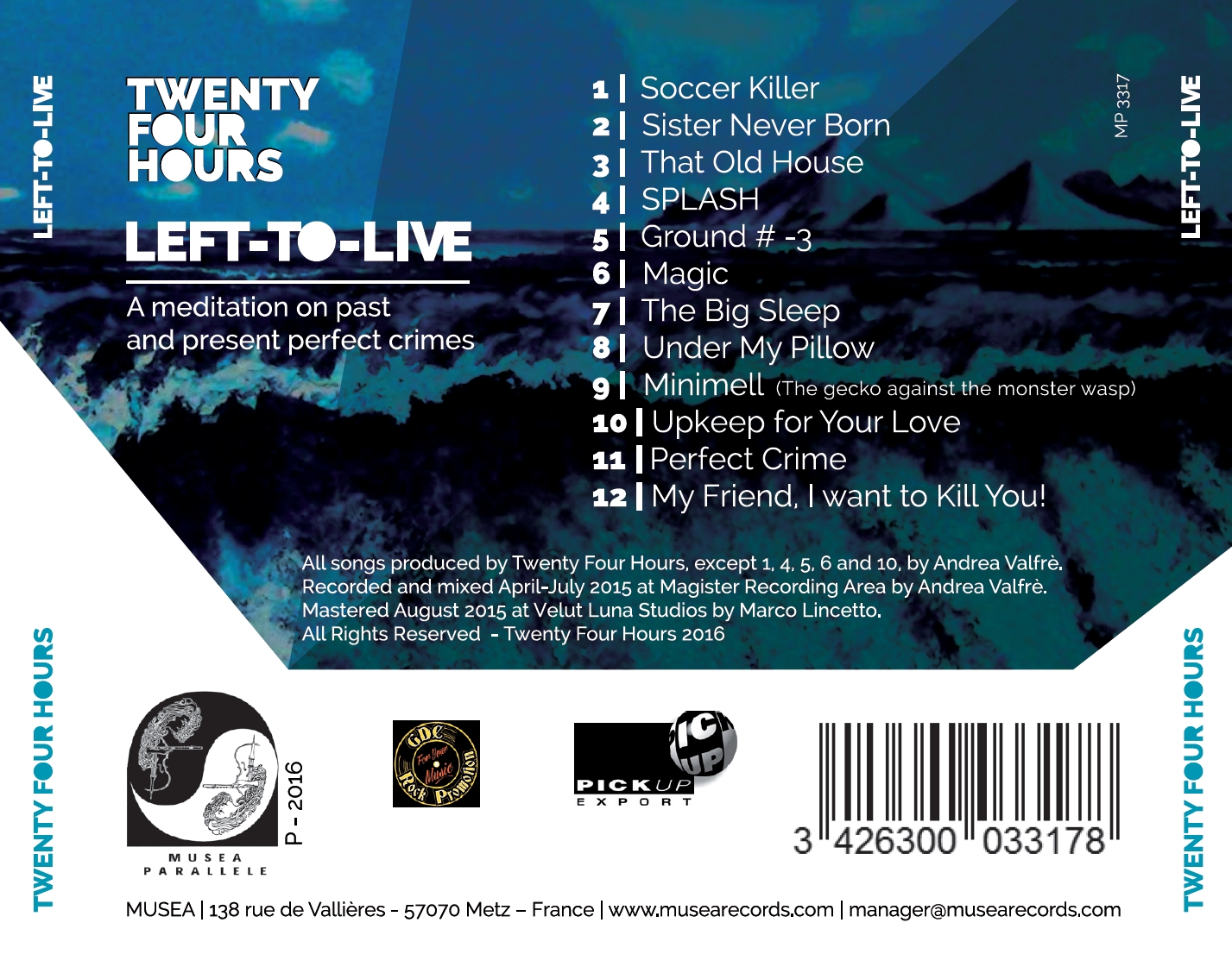 own pic graphics and drawing